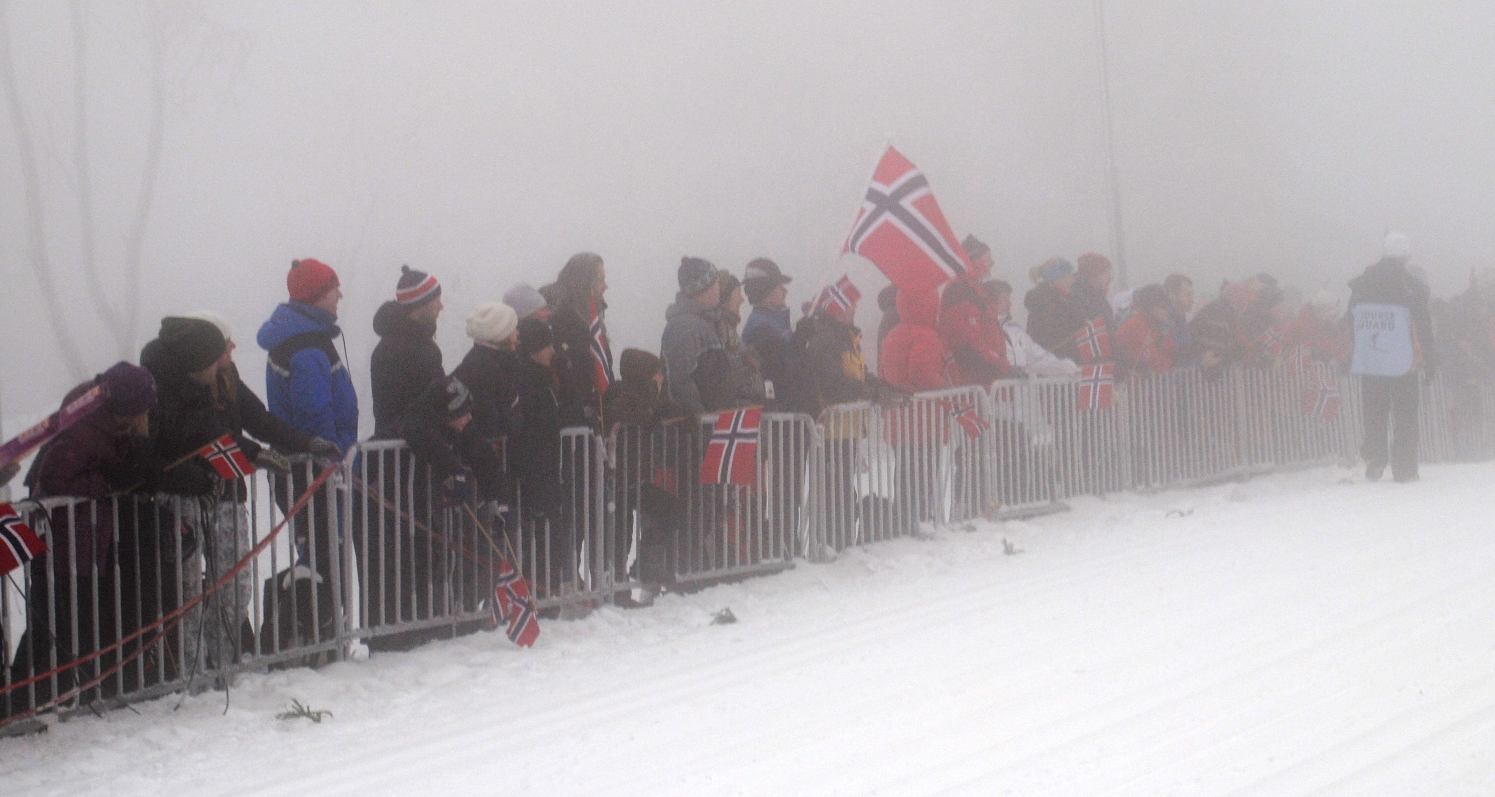 Spectators watching the skiathlon at Frognersetra 26 feb 2011.